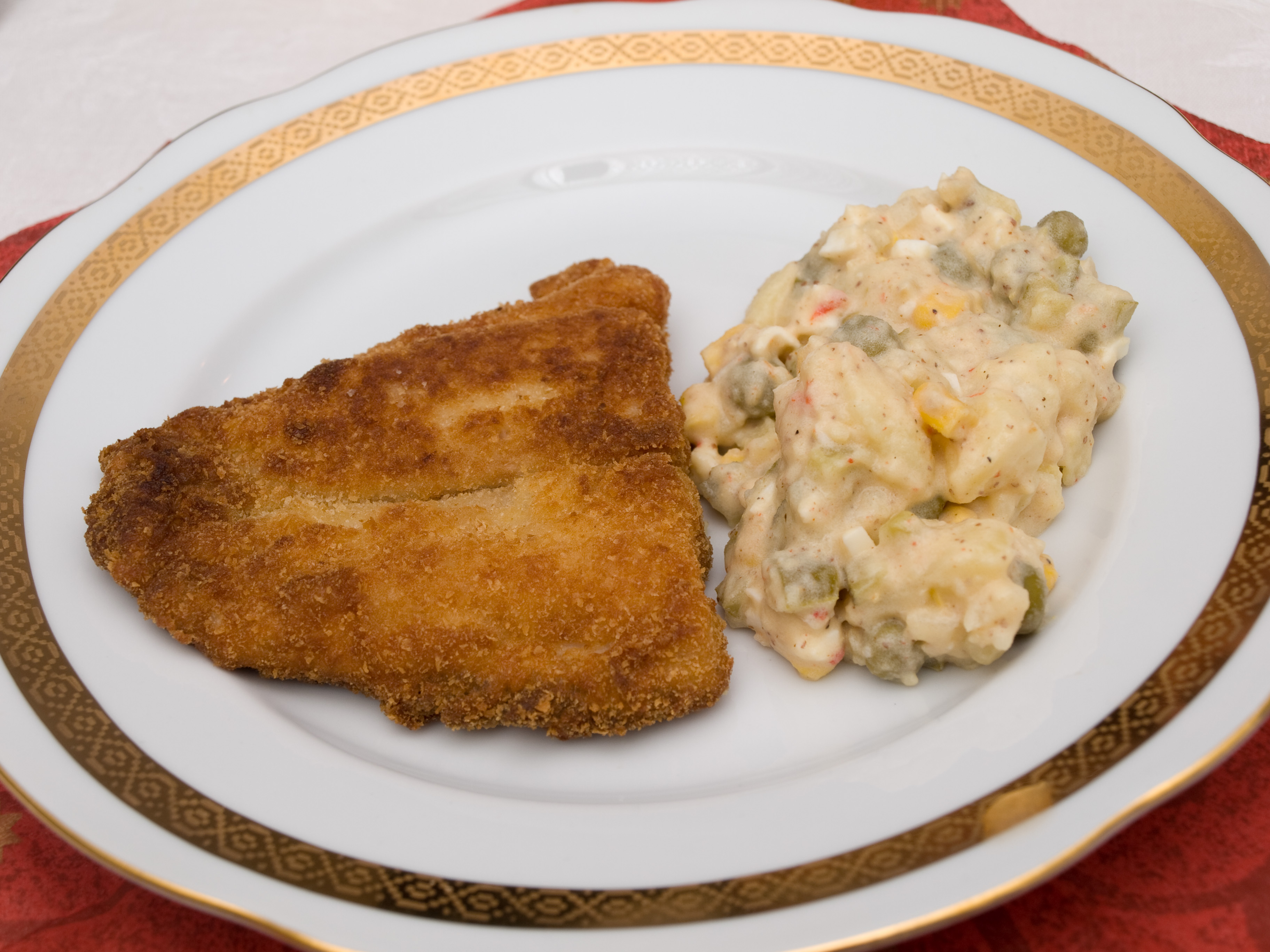 Christmas carp with potato salad, tradicional Czech christmas